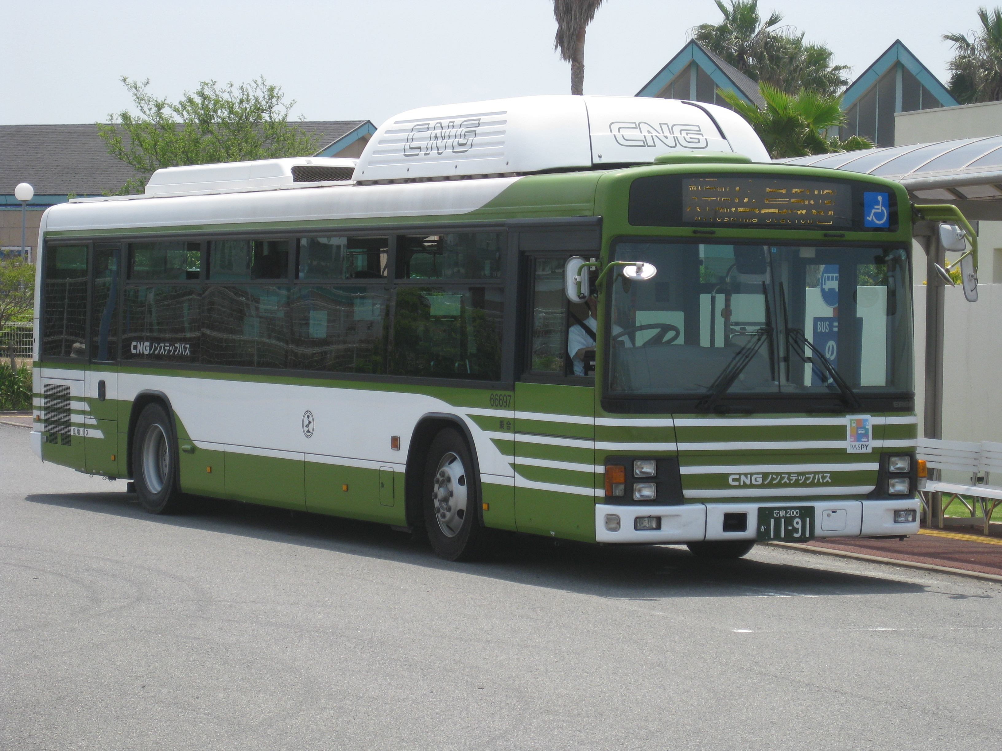 Bus car of Hiroshima Electric Railway.(Bus type isIsuzu Erga.)